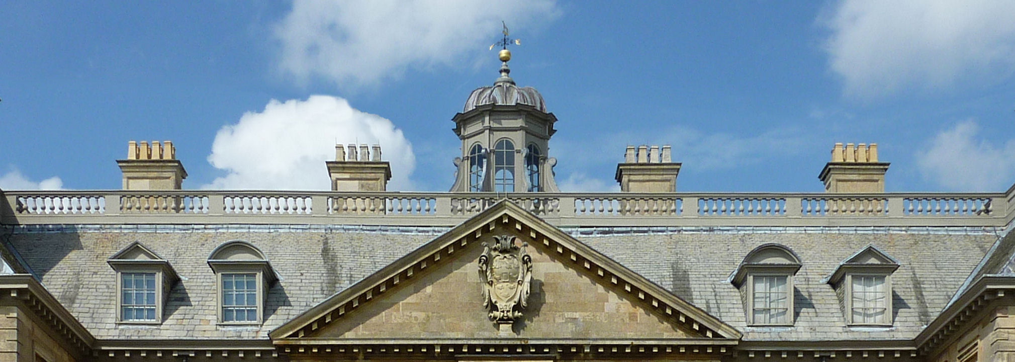 Cuploa and balustrade on the roof at Belton House